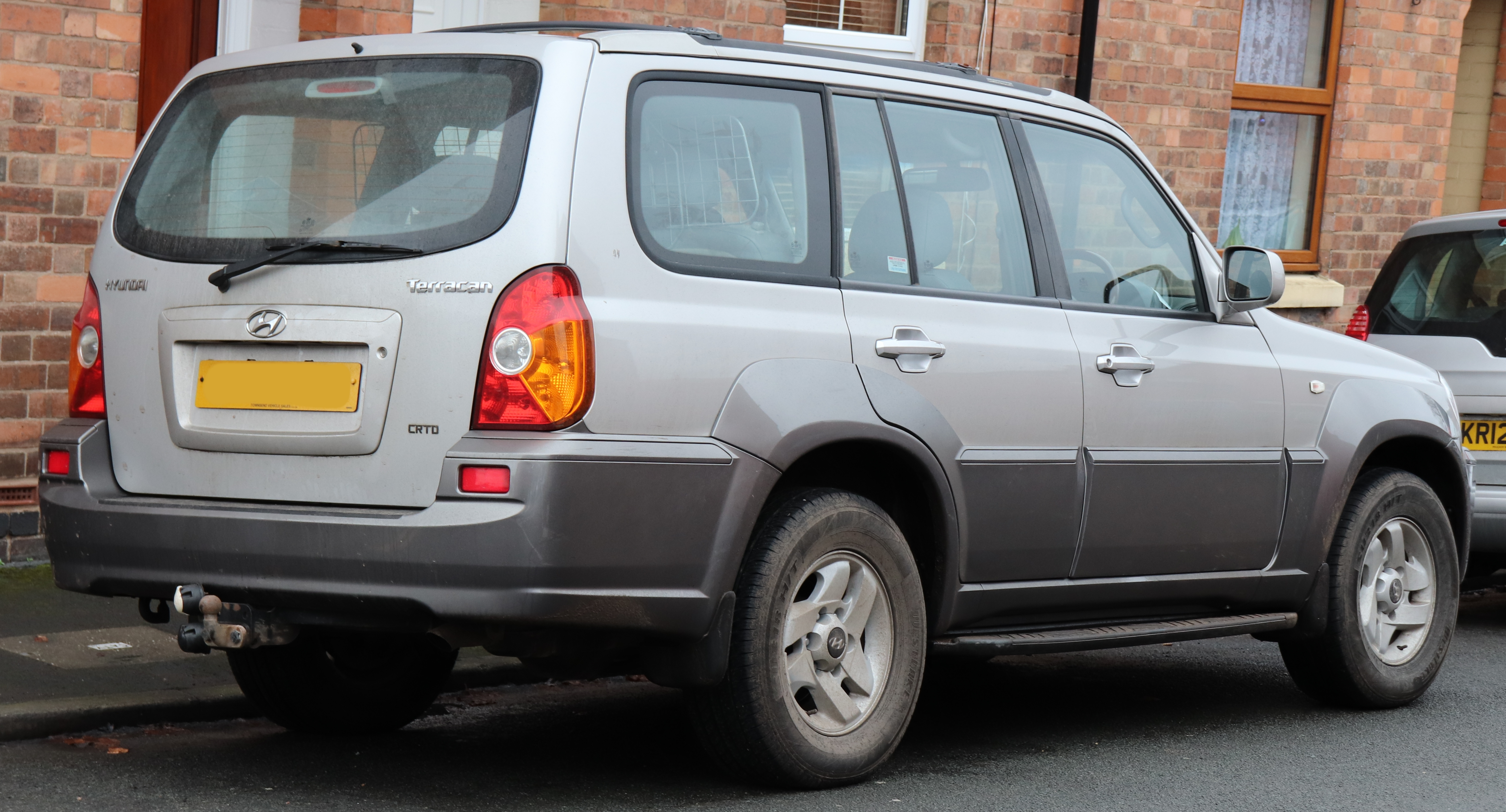 2004 Hyundai Terracan CDX CRTD 3.0 Rear Taken in Warwick